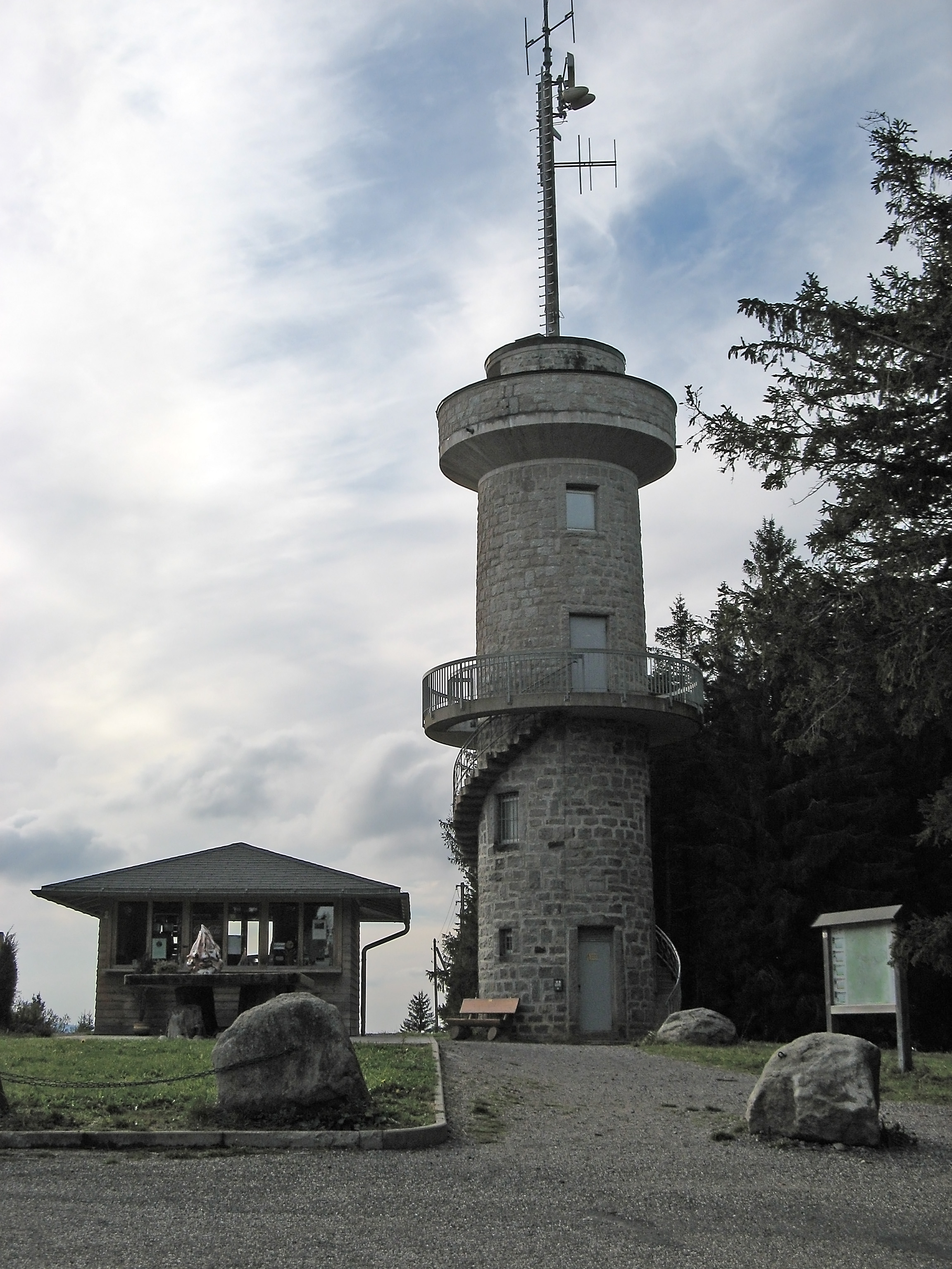 Look-on on top of the Brend, a moutain near Furtwangen, Germany